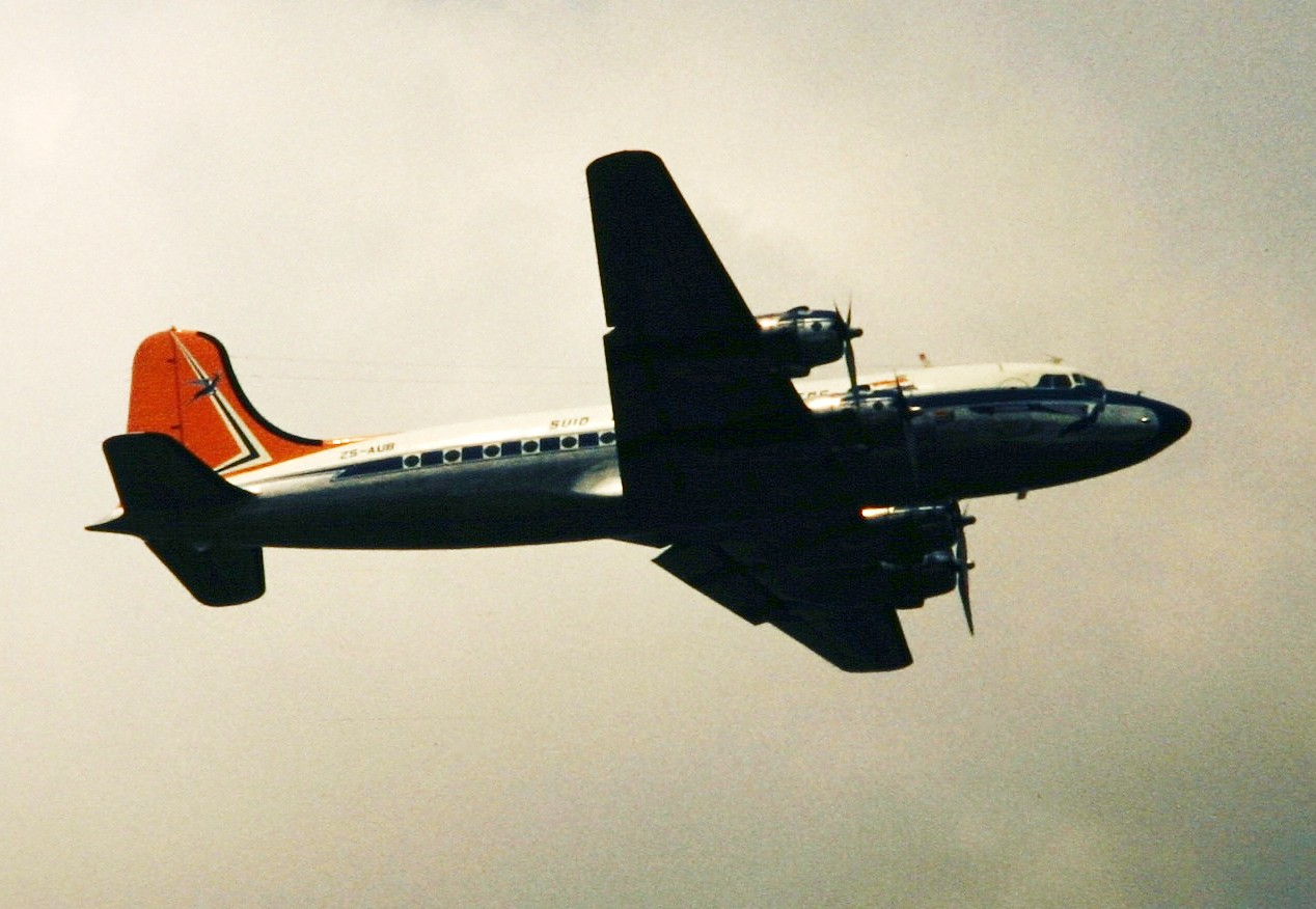 McDonnel Douglas DC-4 Skymaster in the old colours of South African Airways exhibited at the ILA 2000 in Berlin